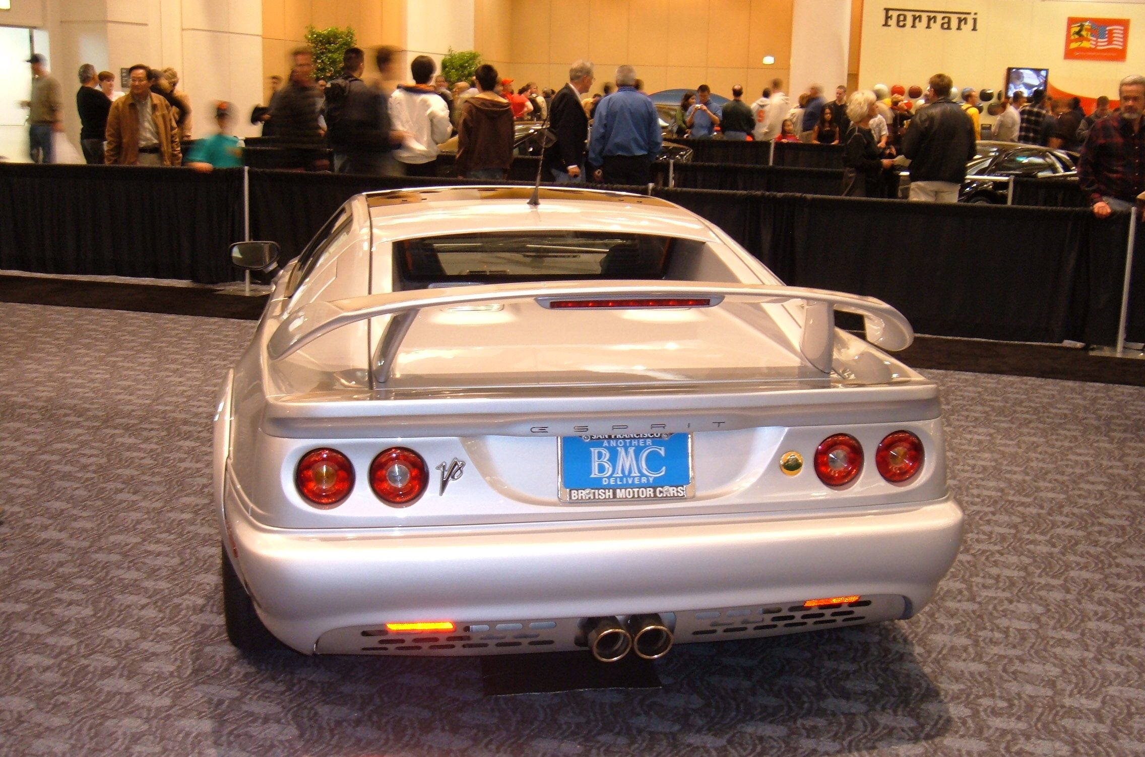 A Lotus Esprit V8 at the 2004 San Francisco International Auto Show.